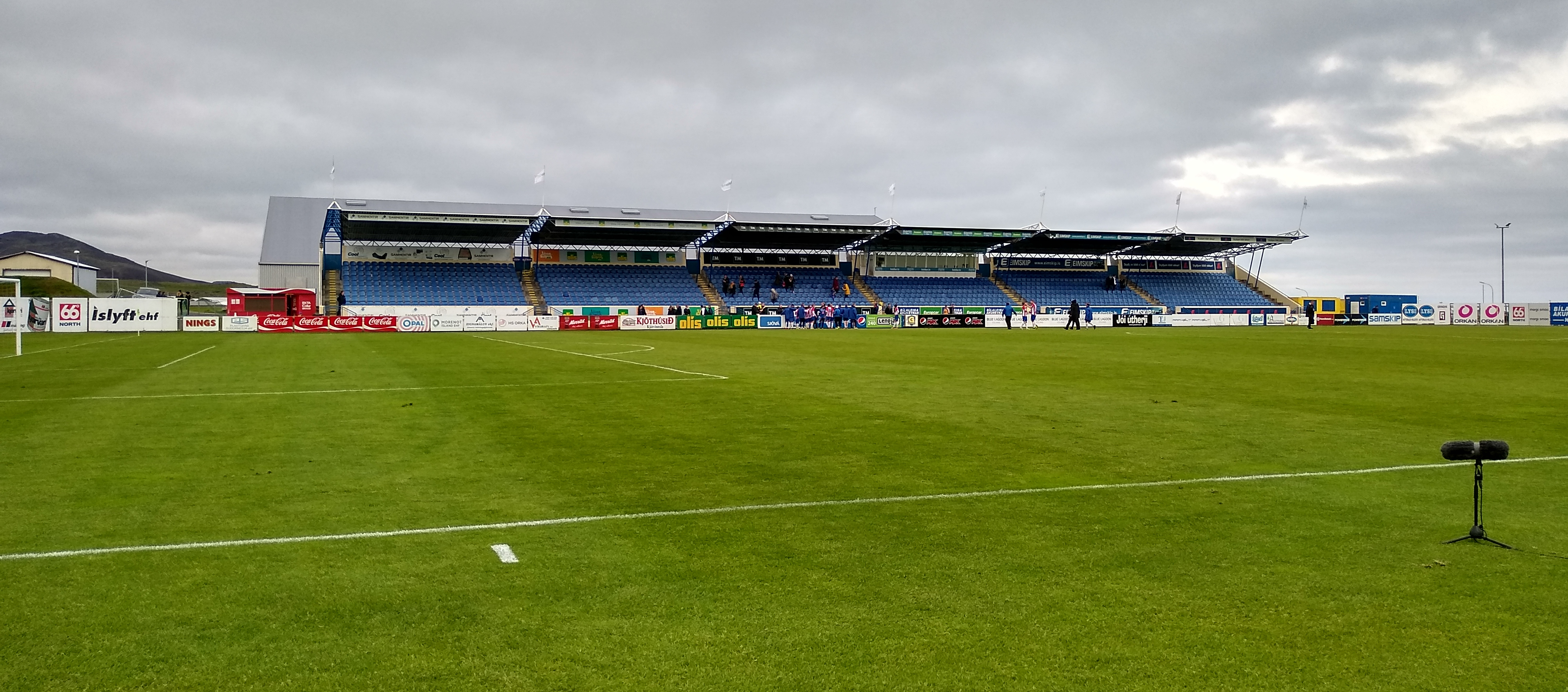 Grindavíkurvöllur